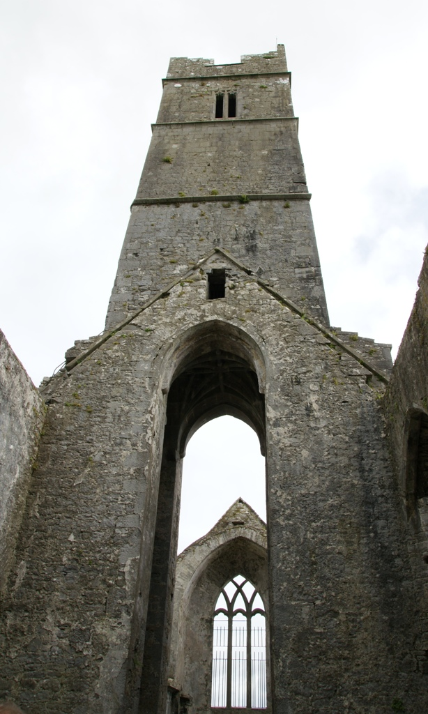 Quin Abbey, Quin (County Clare, Ireland) - tower